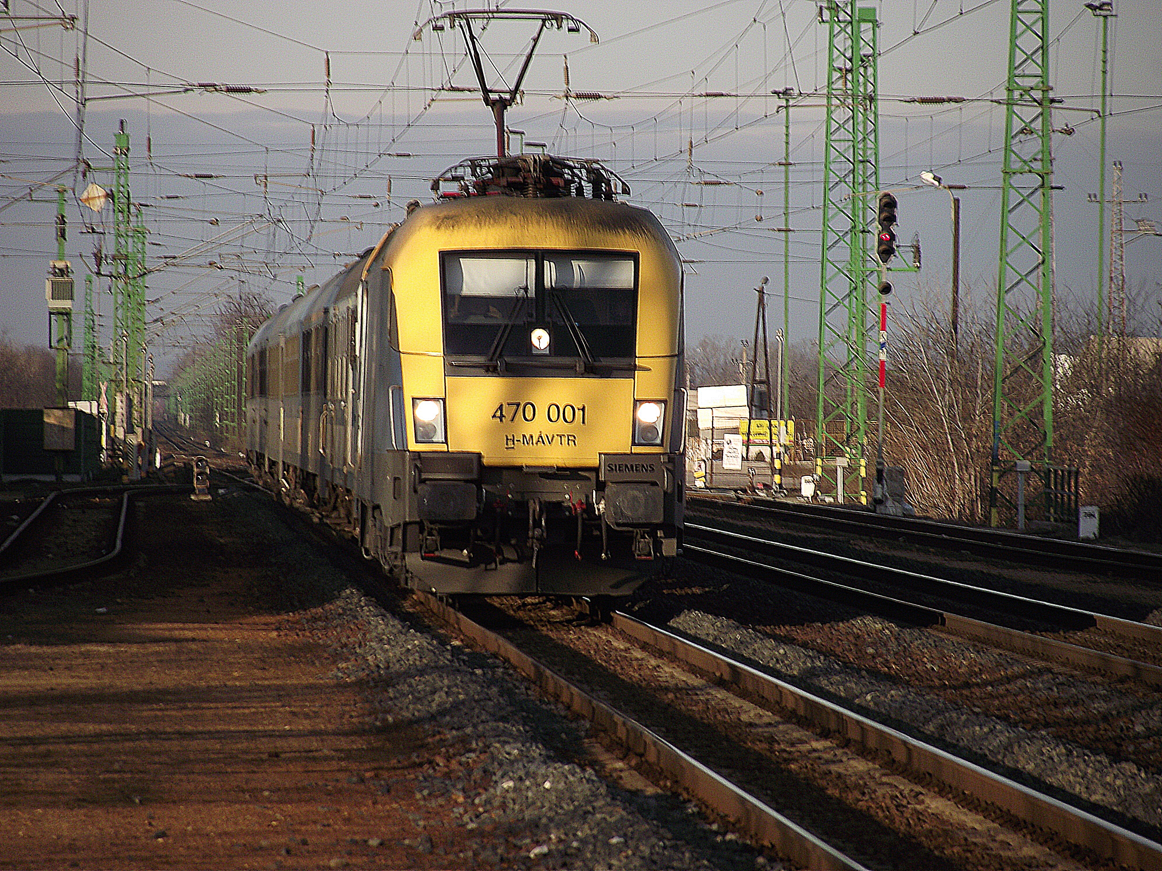 H-MÁVTR 470 001 (taurus) passes through Üllő Peacock 2012.01.07. of intercity train on